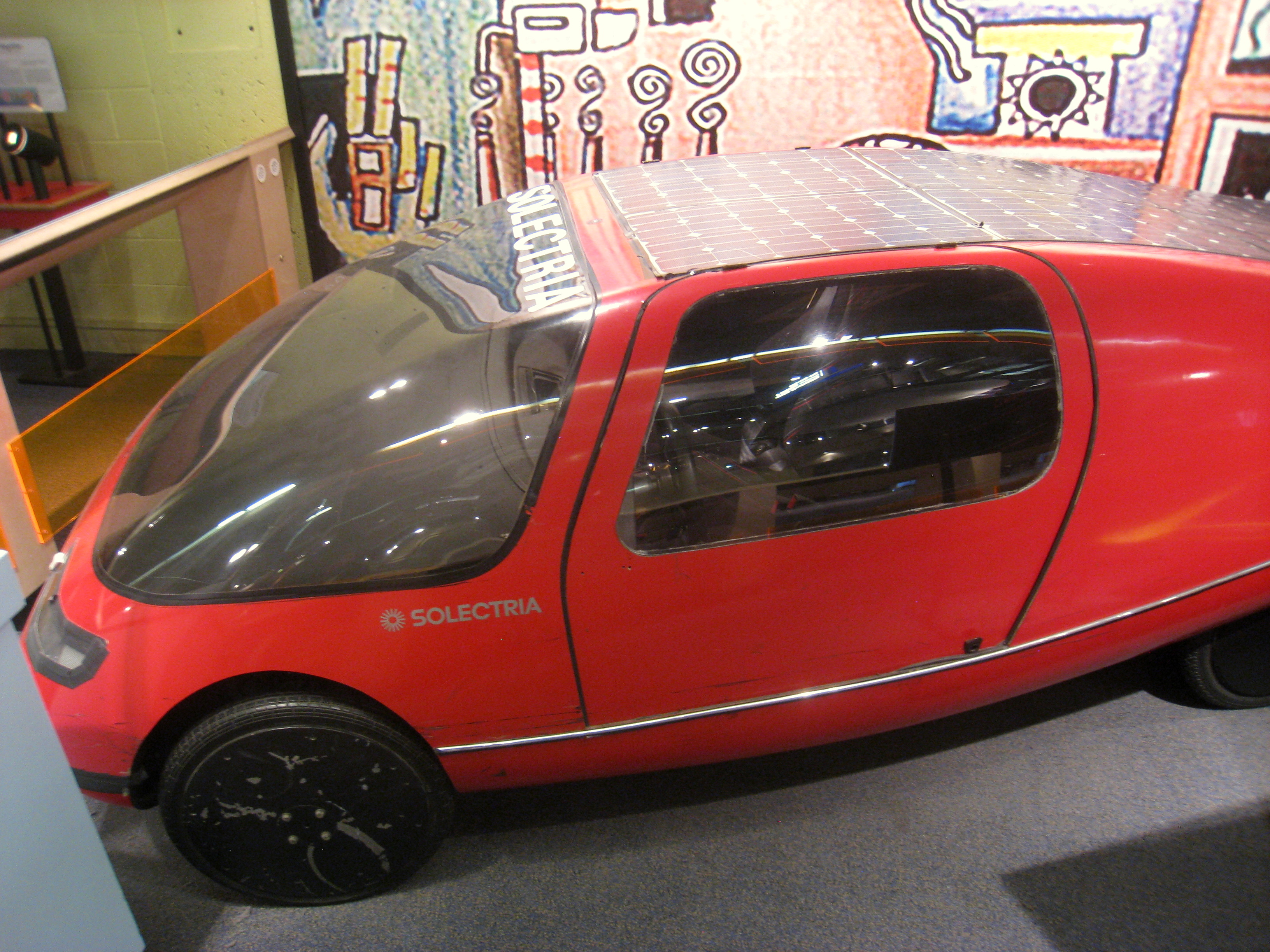 Solectria "Lightspeed" electric car, winner of 1990 America Tour de Sol competition, in Museum of Science, Boston, Massachusetts, USA. Note that there was no prohibition against photography in the museum.